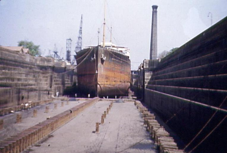 Dry dock at Princess Dock, Mumbai